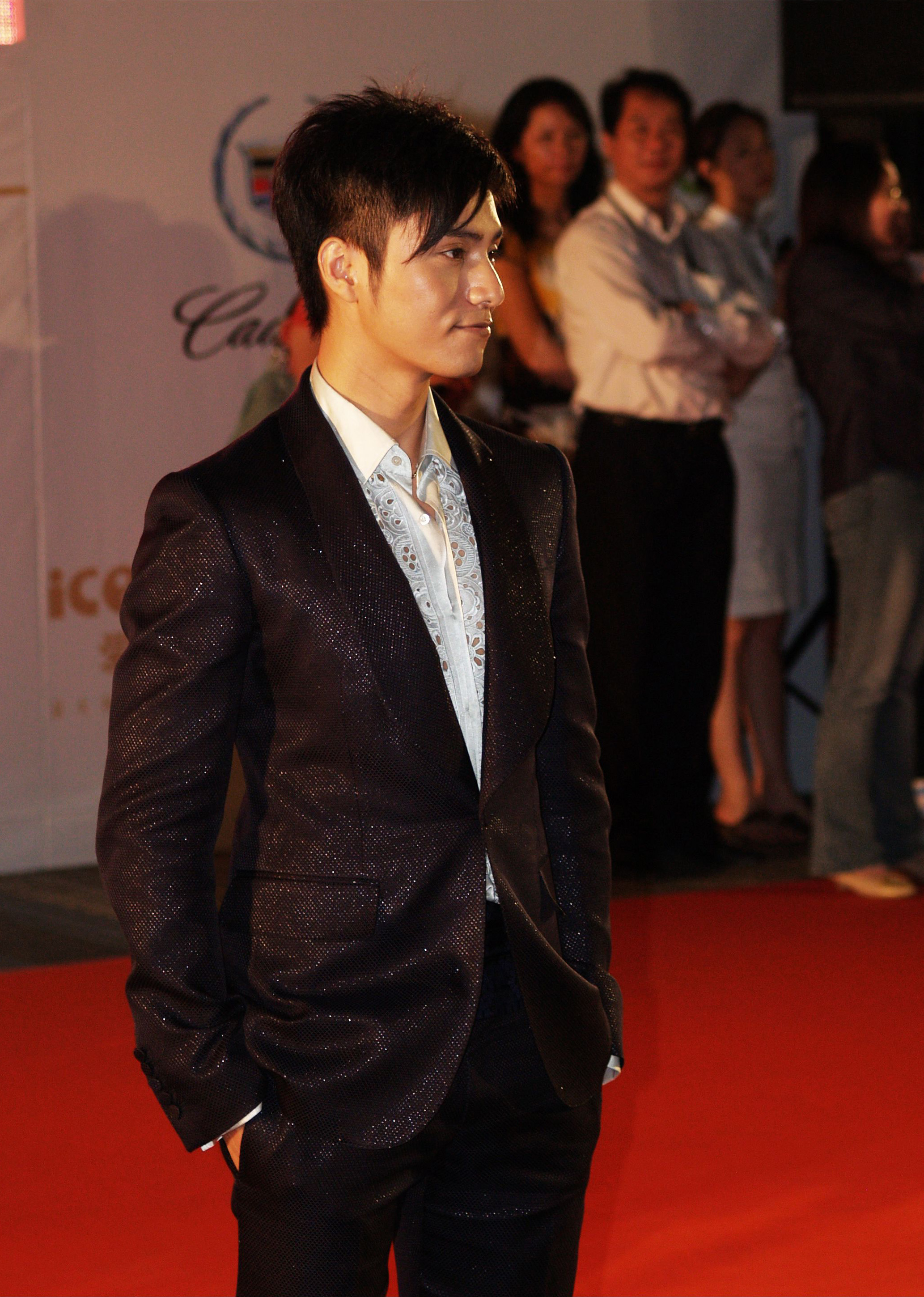 Chen Kun